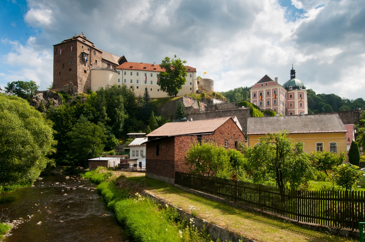 Bečov nad Teplou, Castle (formerly Petschau Castle (from German))